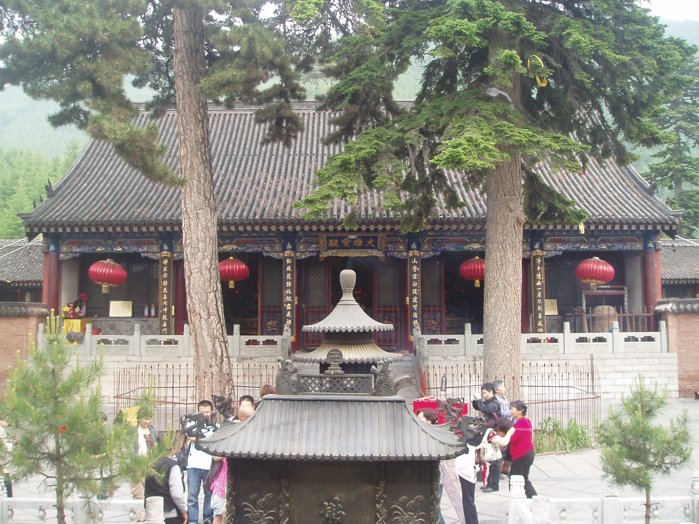 The Grand hall of Dailuoding Temple in Wutaishan.